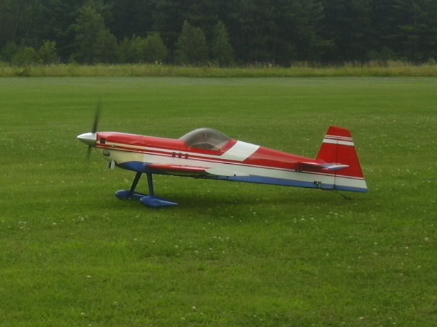 A gasoline powered model propeller aircraft, owned by Ray and Robin's hobby shop, at the Skystreakers' field in Southern Maine, summer 2004.